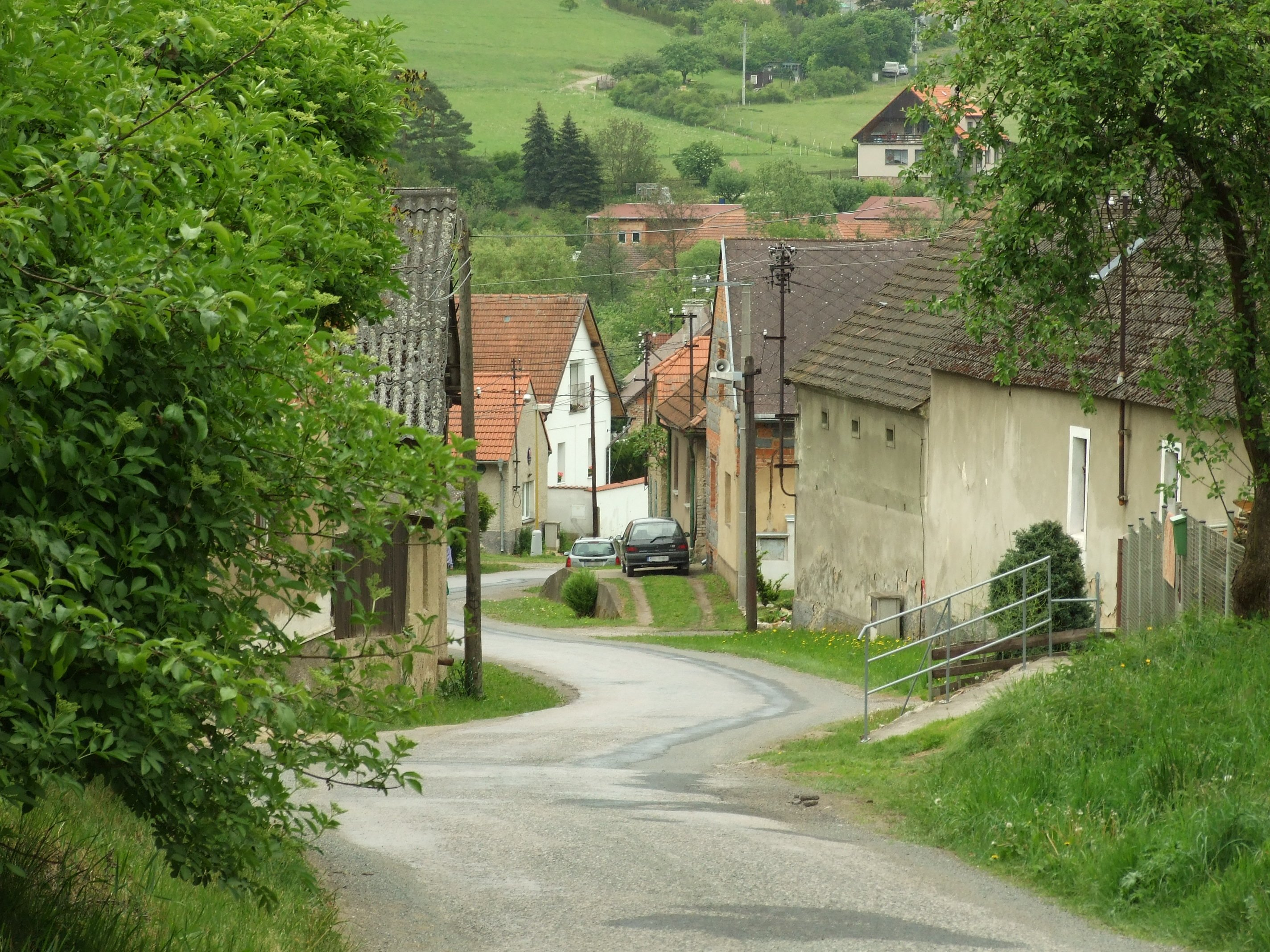 Town of Nenačovice and its surrounding nature in Central Bohemian region, CZhelp